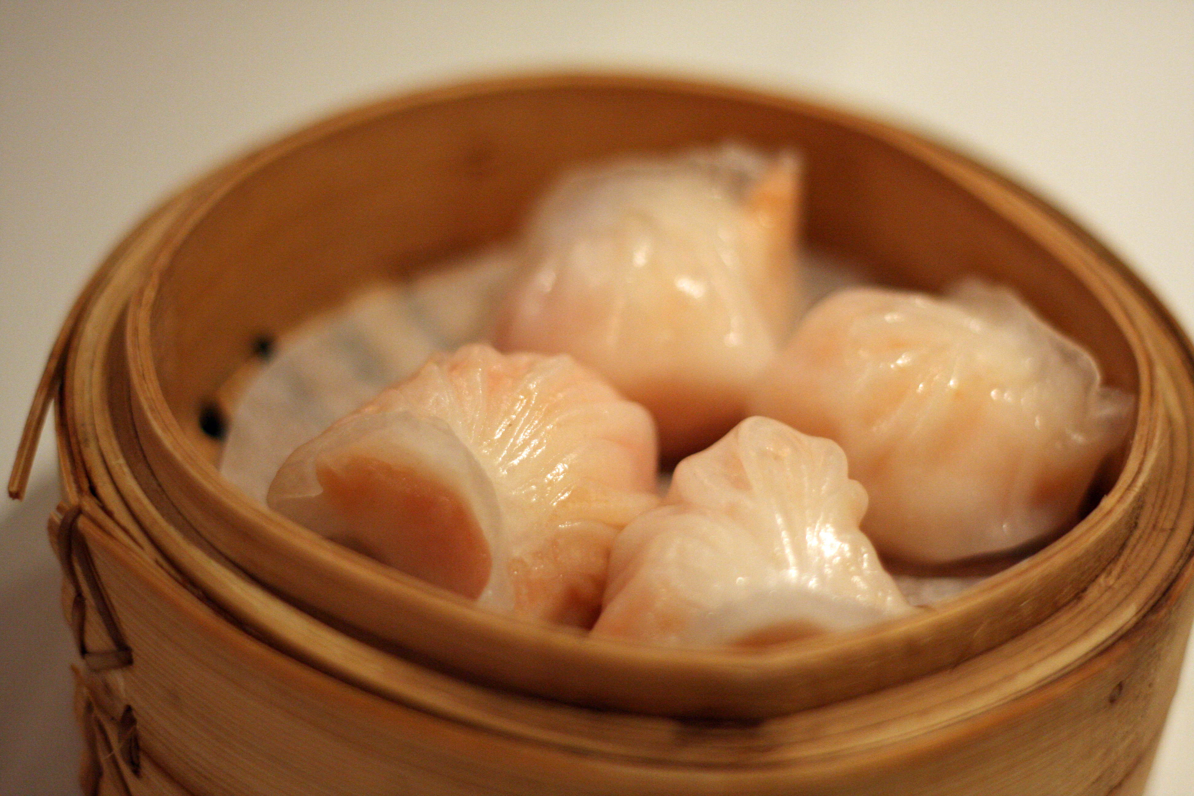 Shrimp dumplings at Golden Unicorn, Chinatown, NYC, April 2009